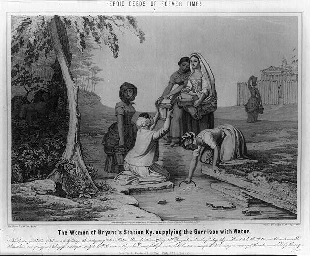 Depiction of the women of Bryan Station getting water while Native Americans, who are about to besiege the settlement, watch. Famous event in Kentucky during the American Revolutionary War.